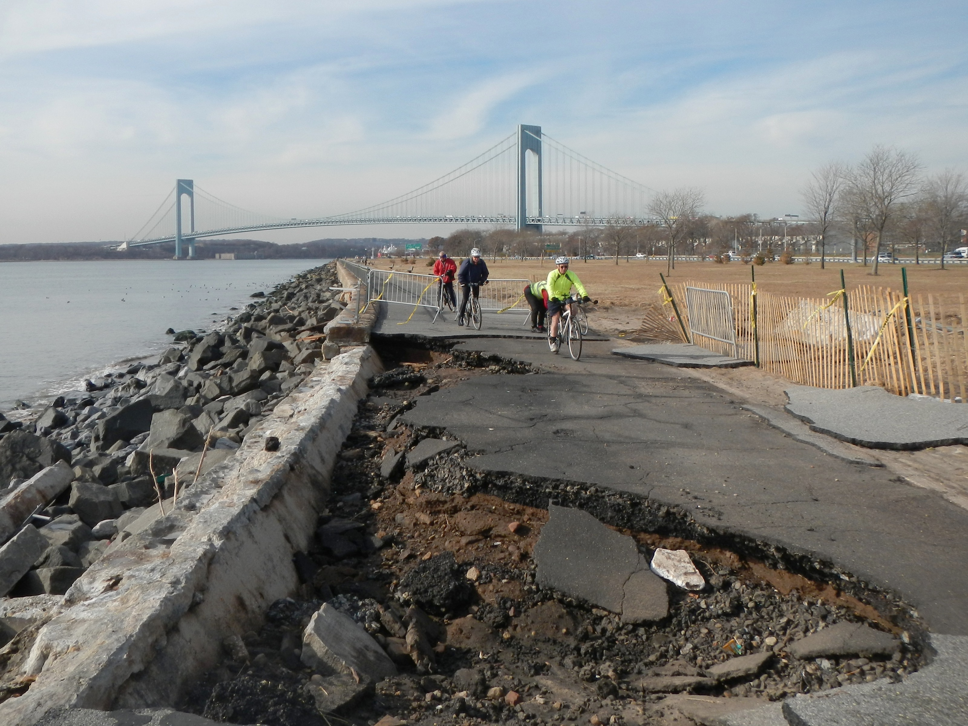 Looking west as Joseph leads bikers towards scoured out portion of Belt Parkway bikeway on a mostly sunny late morning.